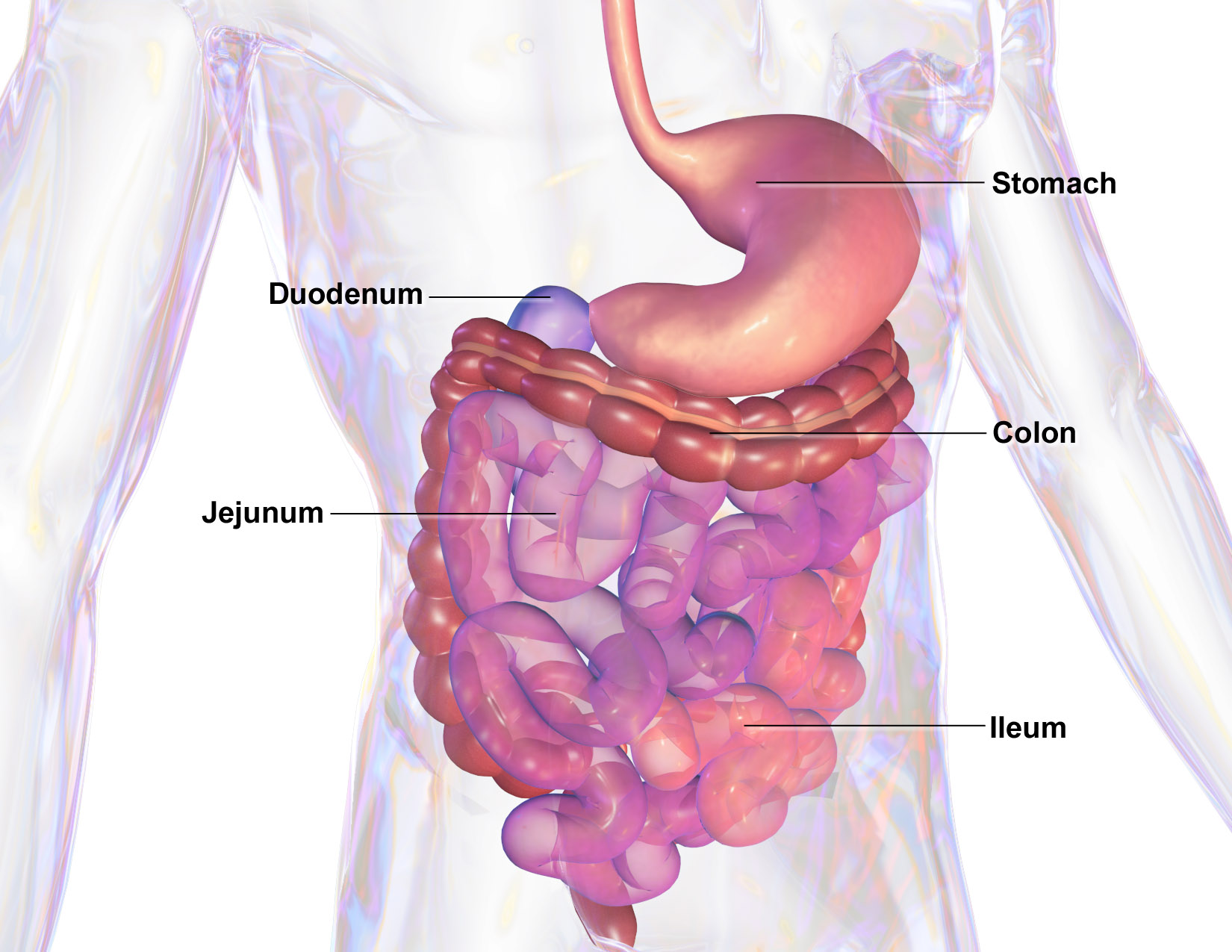 Gastrointestinal System. See a full animation of this medical topic.